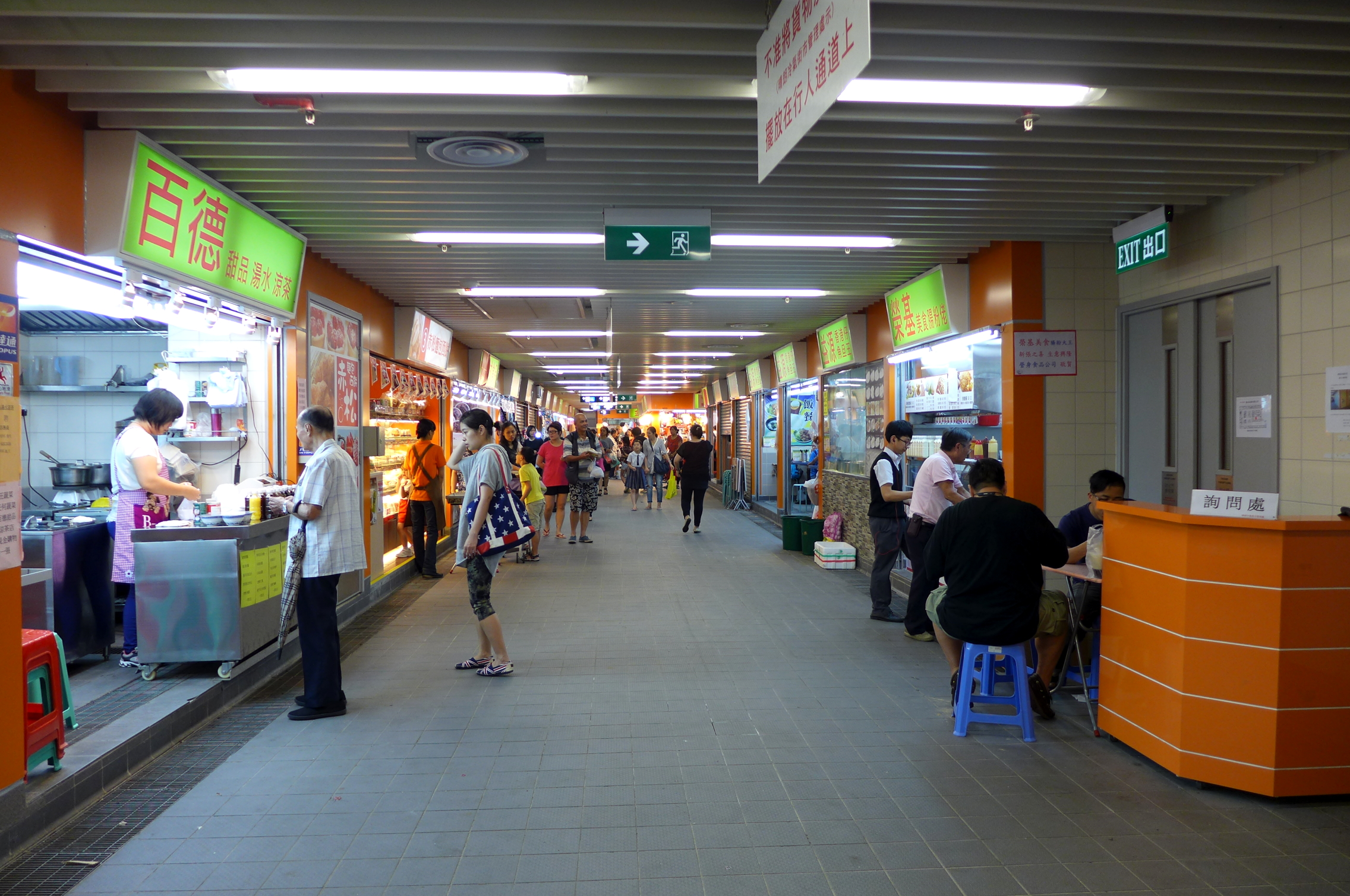 Ching Long Shopping Centre Wet Market